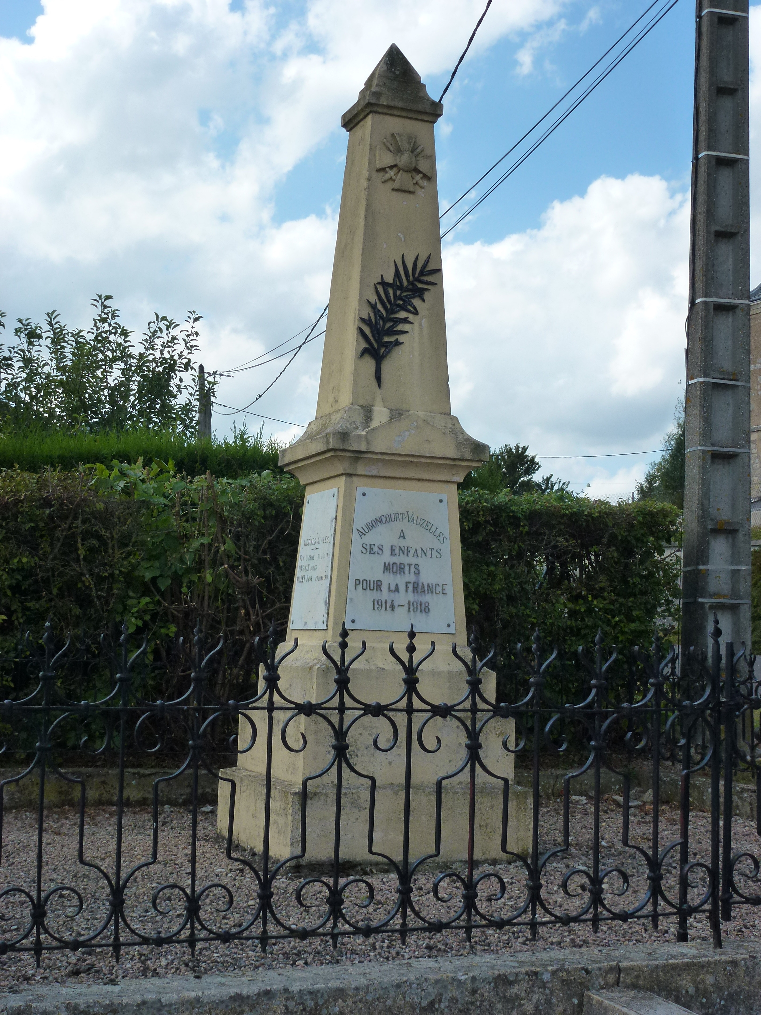 Auboncourt-Vauzelles (Ardennes) monument aux morts